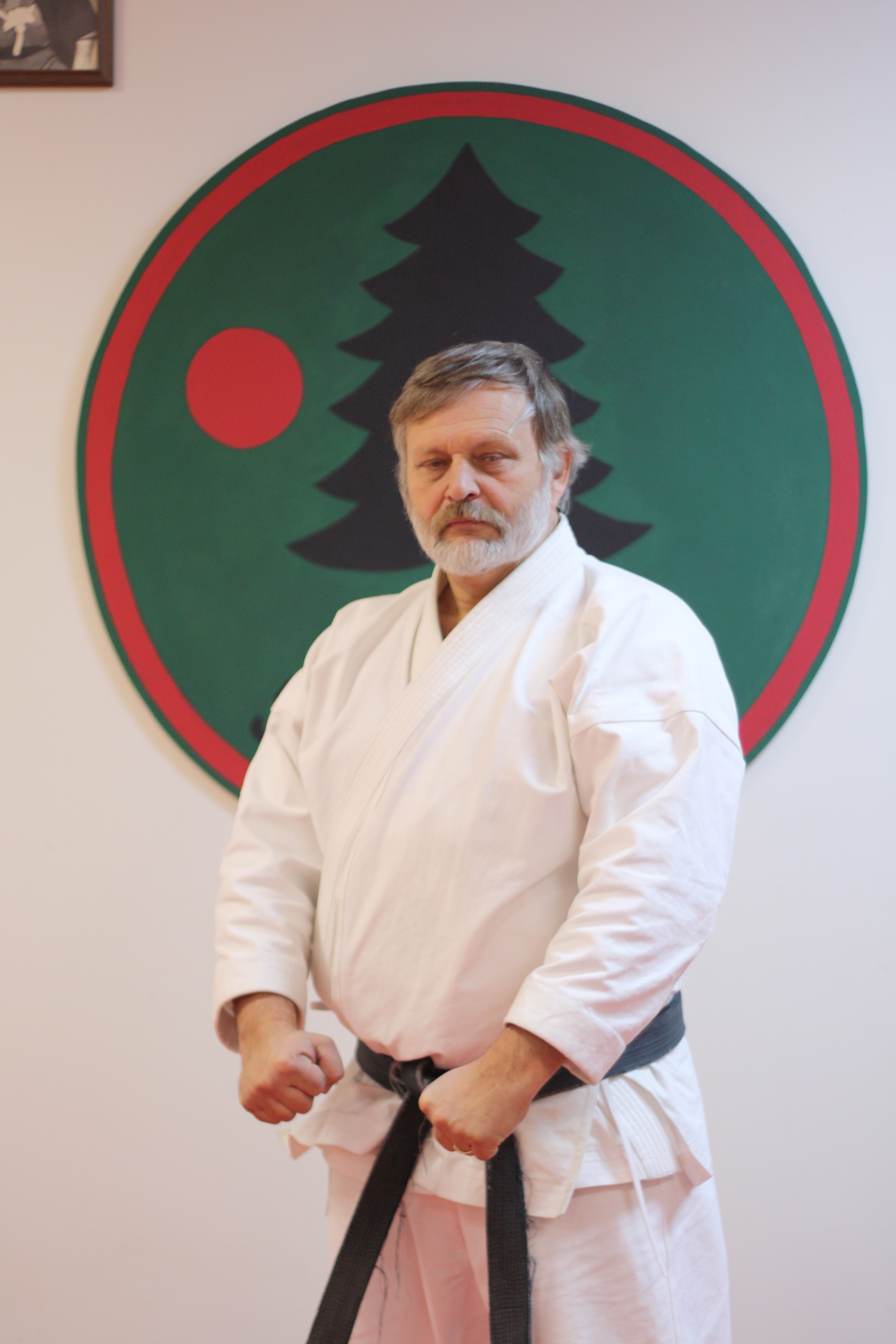 Shihan Joseph W. Walker is an American martial artist and karateka. He is an 8th degree black belt in Shuri-ryu Karate-do, a student of the late Grand Master Robert A. Trias, and the director of the Academy of Okinawan Karate in Peoria, IL.